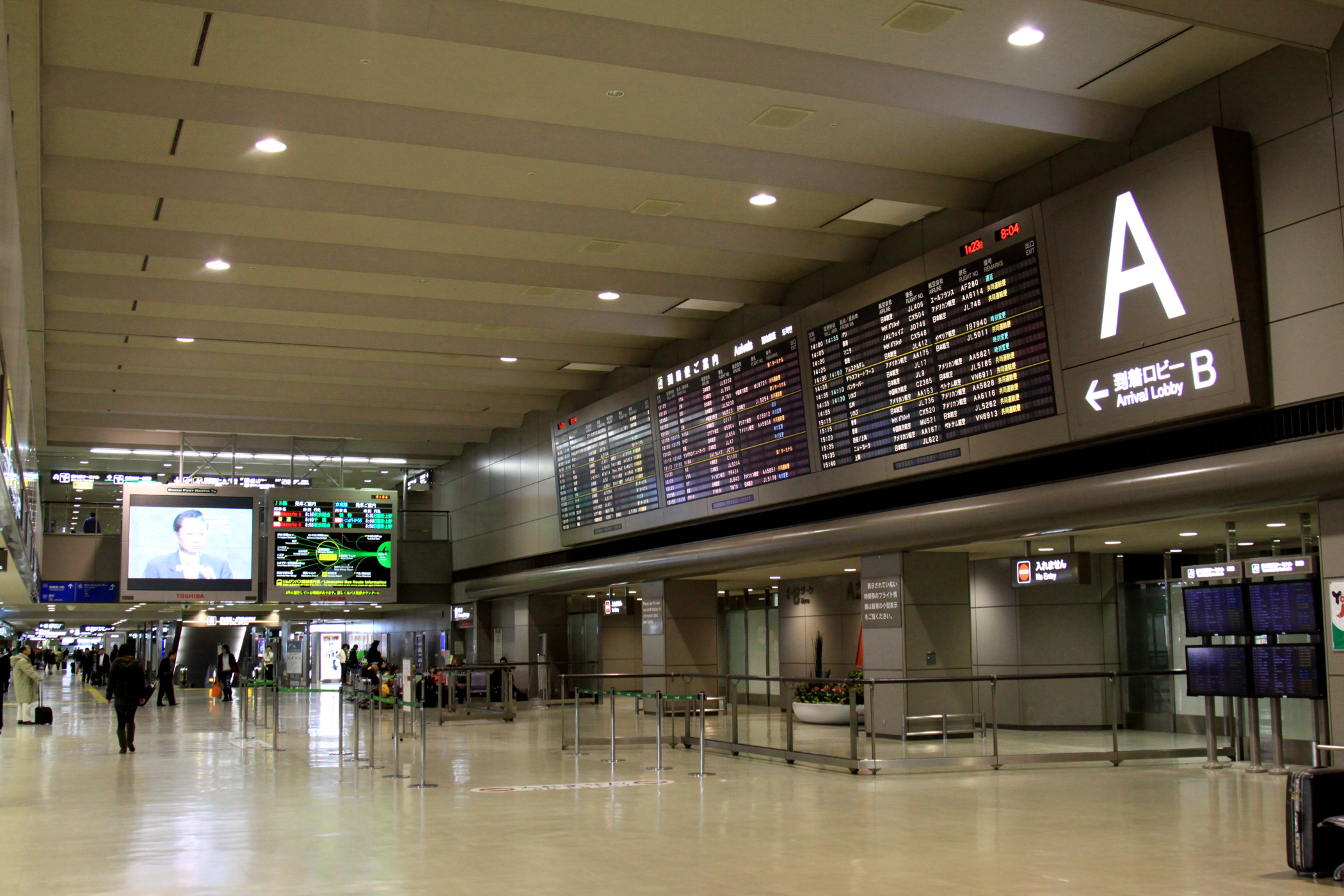 Narita International Airport, Terminal 2